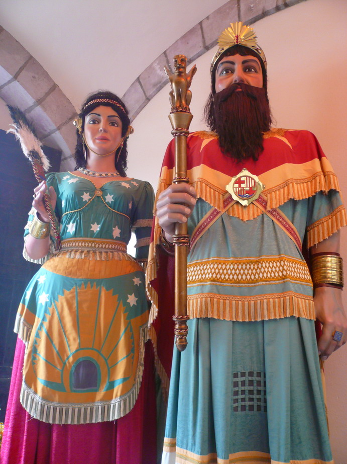 Gegants de Santa Maria del Mar